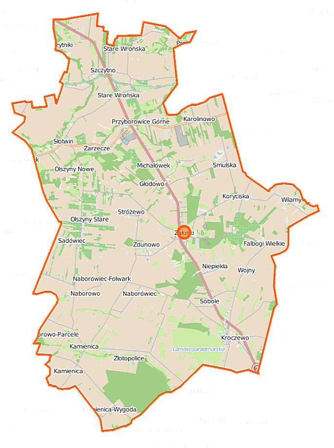 Map of Gmina Załuski, Poland This map of Załuski (gmina) was created from OpenStreetMap project data, collected by the community. This map may be incomplete, and may contain errors. Don't rely solely on it for navigation. Border coordinates52.592220.4277←↕→20.615252.4389